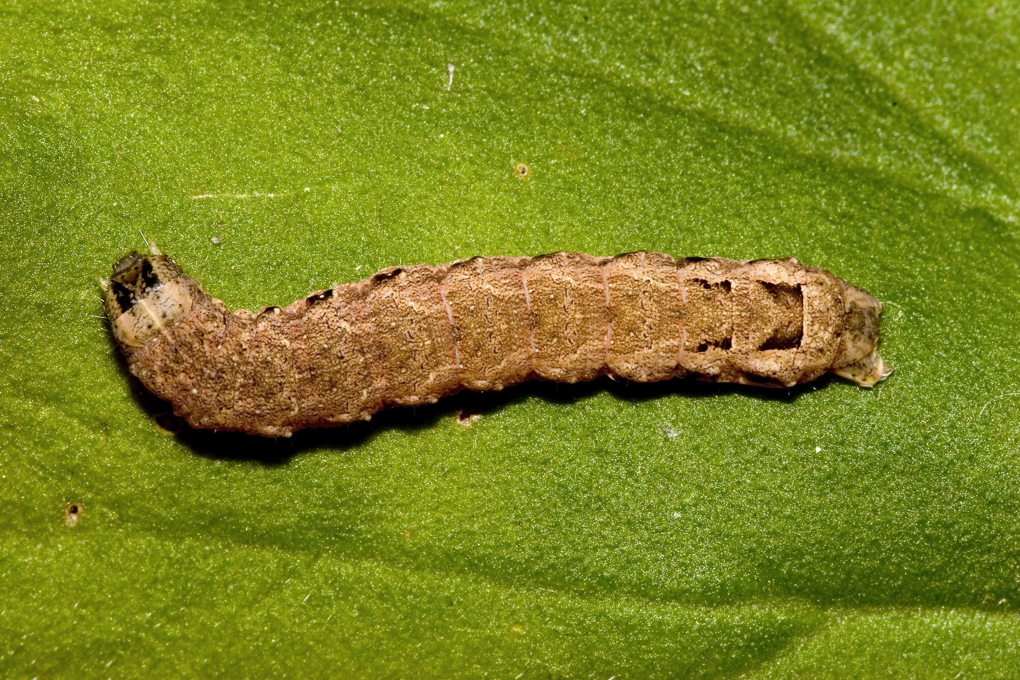 Lesser Yellow Underwing